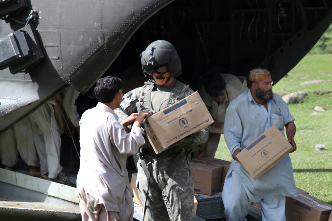 U.S. Army Spc. Daniel Postell carries a box of biscuits to a local Pakistani as part of the humanitarian assistance effort in the Swat Valley, Aug 11, 2010. U.S. Army Chinook helicopters are being used to deliver humanitarian assistance and evacuate civilians in the flood-recovery effort in Khyber Pakhtunkhwa province, Pakistan.